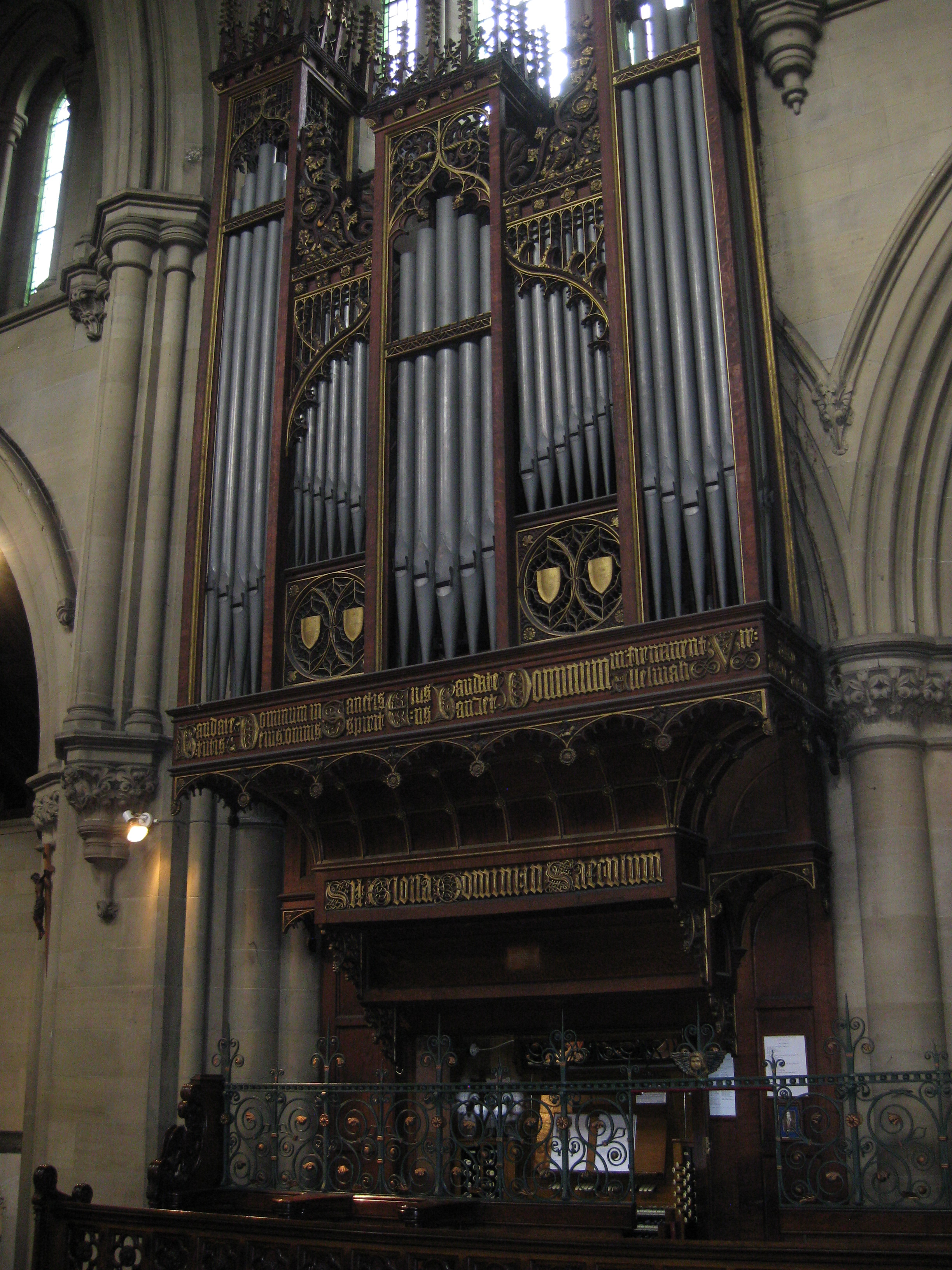 All Souls Church, Blackman Lane, Leeds LS2 9EY. Church organ by Isaac Abbott.